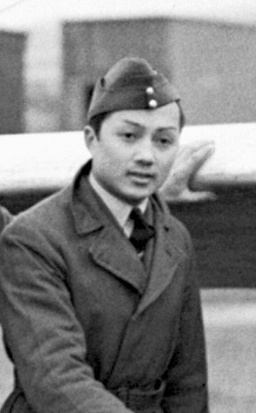 Air cadets learn the basics of flight at RNAS St Merryn in Cornwall, February 1944. Flight Lieutenant Prince Birabangse, well known in peacetime as the racing motorist B Bira, but now Chief instructor at the school, shows a cadet how to handle the controls of an elementary glider. From left to right: Sub Lieut (A) W A Murray, RNVR, an instructor; Lieut Cdr (A) K Garston-Jones, RNVR, Chief Liaison Officer to the ATC for HMS VULTURE; Squadron Leader Sir John Mclesworth St Aubyn; Air Commodore W Sawrey; Flight Lieut Prince Biribangse, Capt W P McCarthy, RN, Commanding Officer HMS VULTURE; Flying Officer J Wills, Commanding Officer of Liskeard, Cornwall ATC, cadets and Lieut M H Powell, of the Home Guard. The Wren Officer is Second Officer K B Morris, of HMS VULTURE. This is a modified version of the original image! Cropped to focus on subject